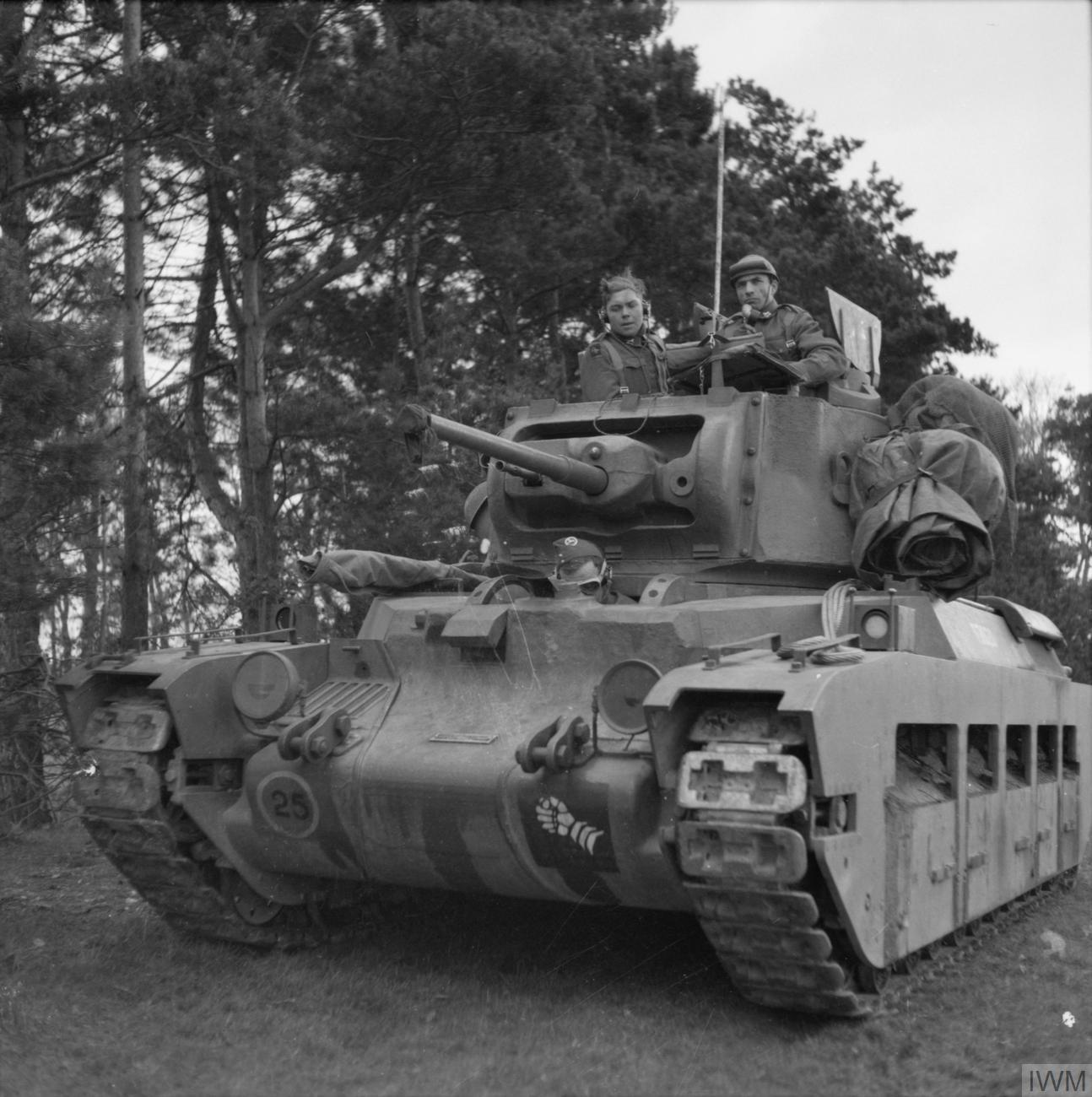 The British Army in the United Kingdom 1939-45 Matilda tank of 6th Armoured Division during large-scale manoeuvres near Thetford in Norfolk, 26-28 April 1941.